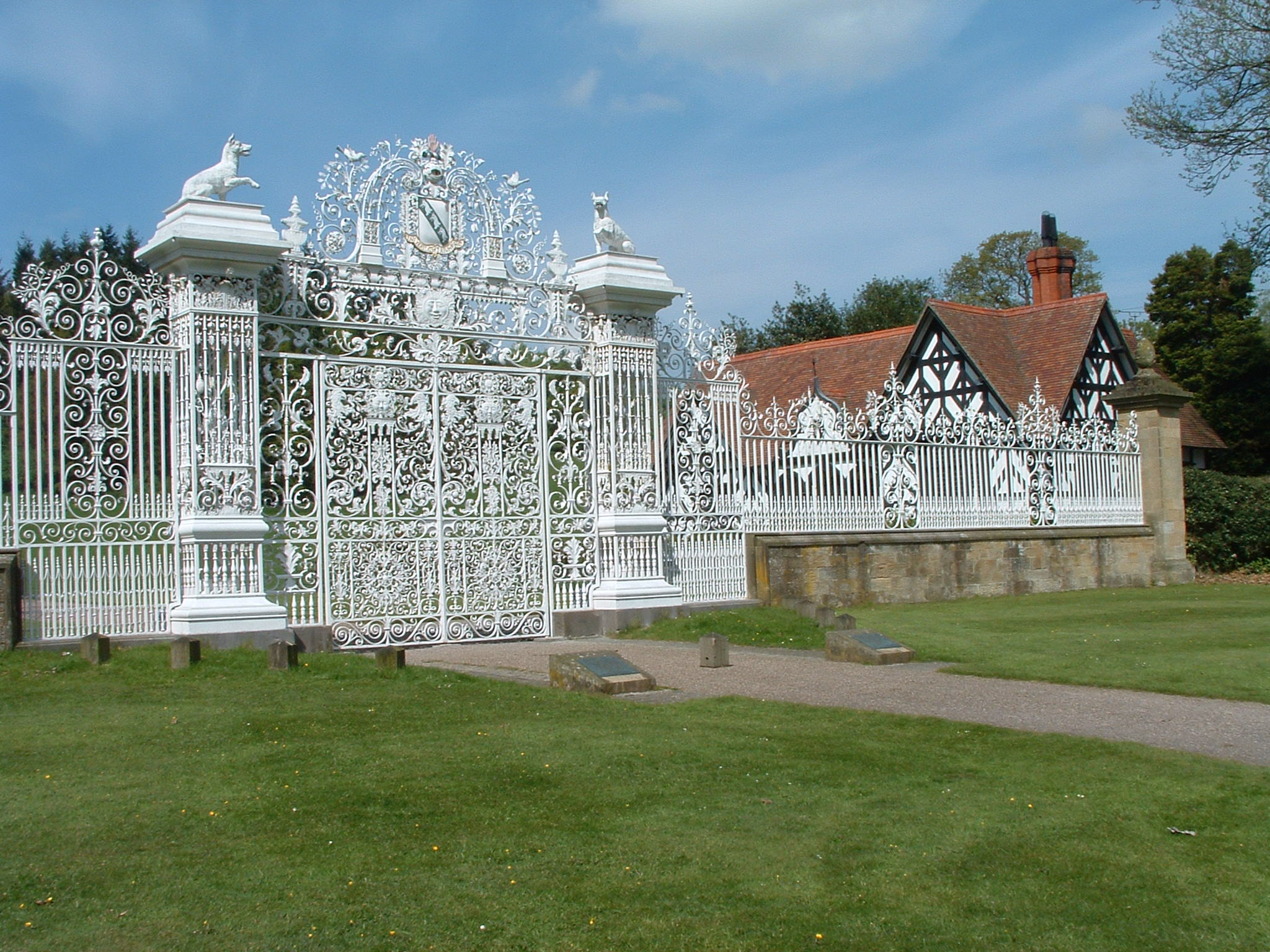 the Fence at the entrance to the grounds of Chirk Castle. Photo made by uploader, Akke.